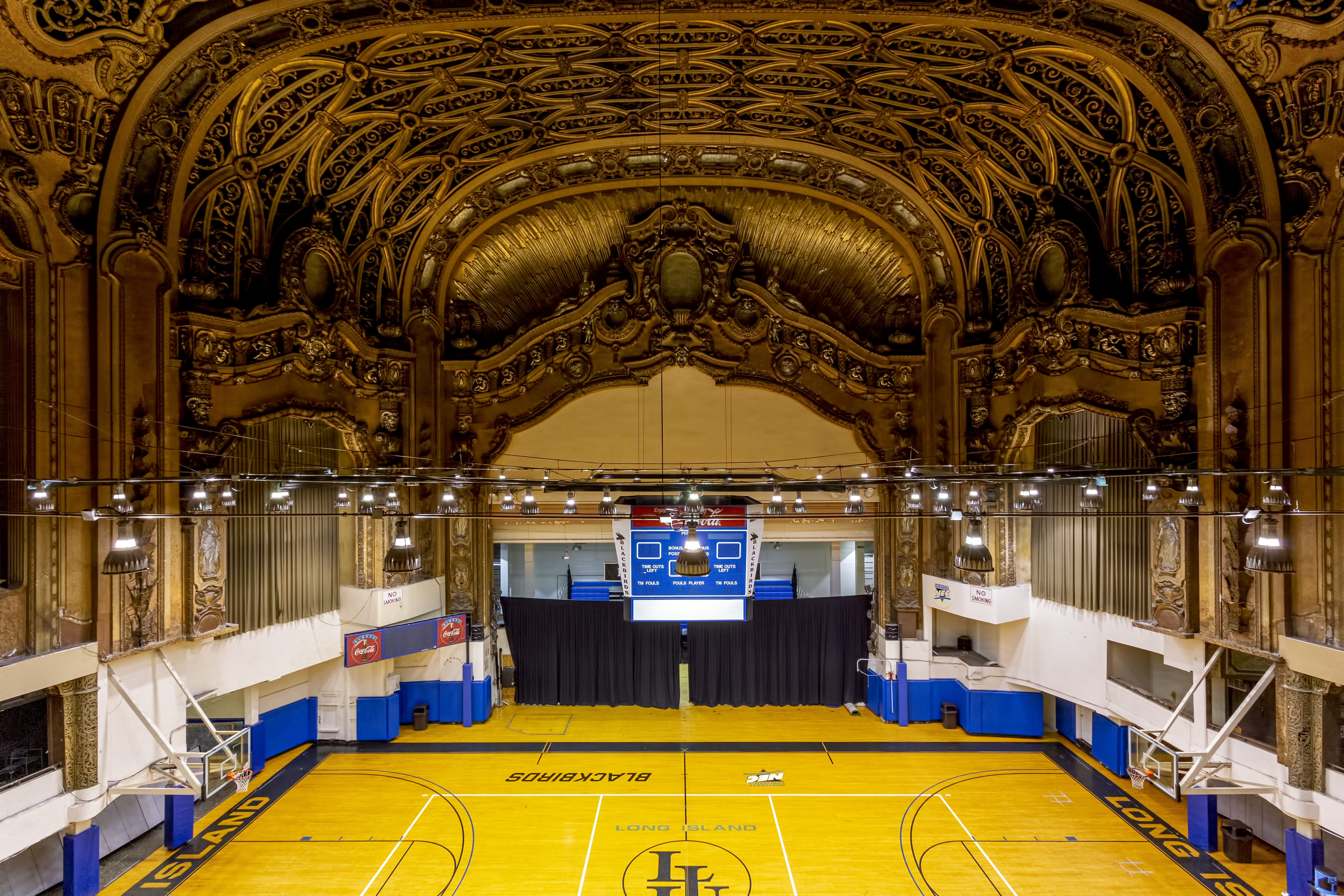 The pre-renovation interior of the Paramount Theatre, Brooklyn, New York, with the Long Island University basketball court.